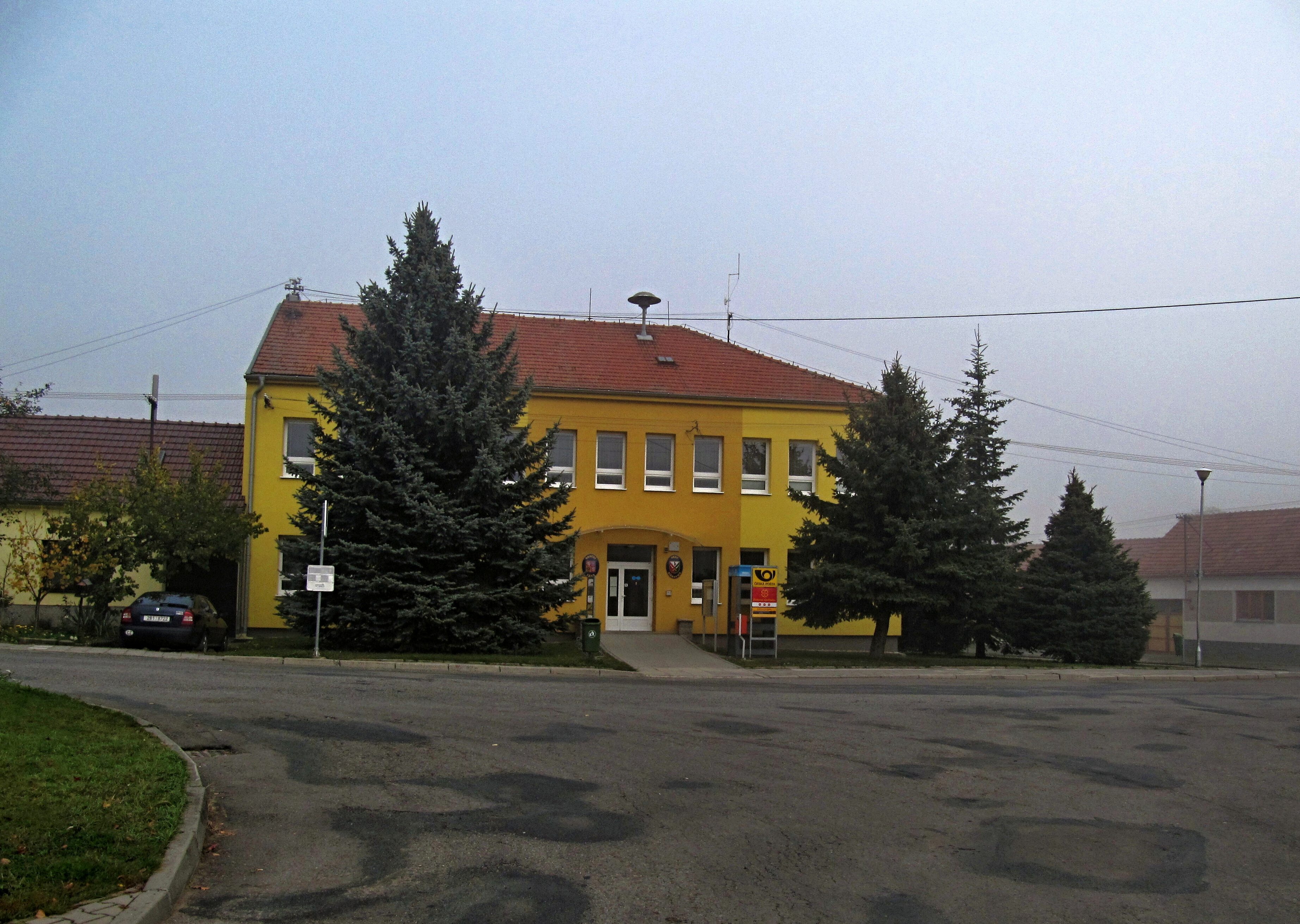 Nížkovice in Vyškov District, Czech Republic. Municipal office.